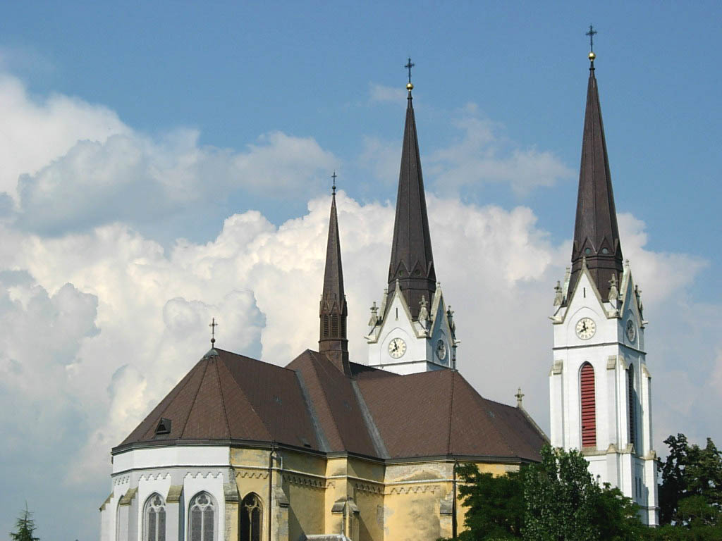 The Heart of Jesus Catholic Church in Futog. View from the west.